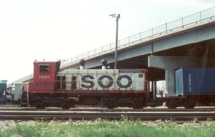 A Soo Railroad diesel switching loco in Chicago